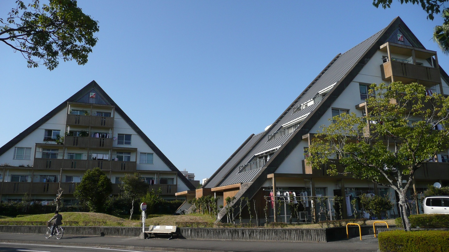 Miyazaki Prefectural Apartment house (Miyazaki University Town - Miyazaki City, Japan)